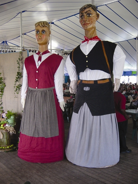 picture of giants